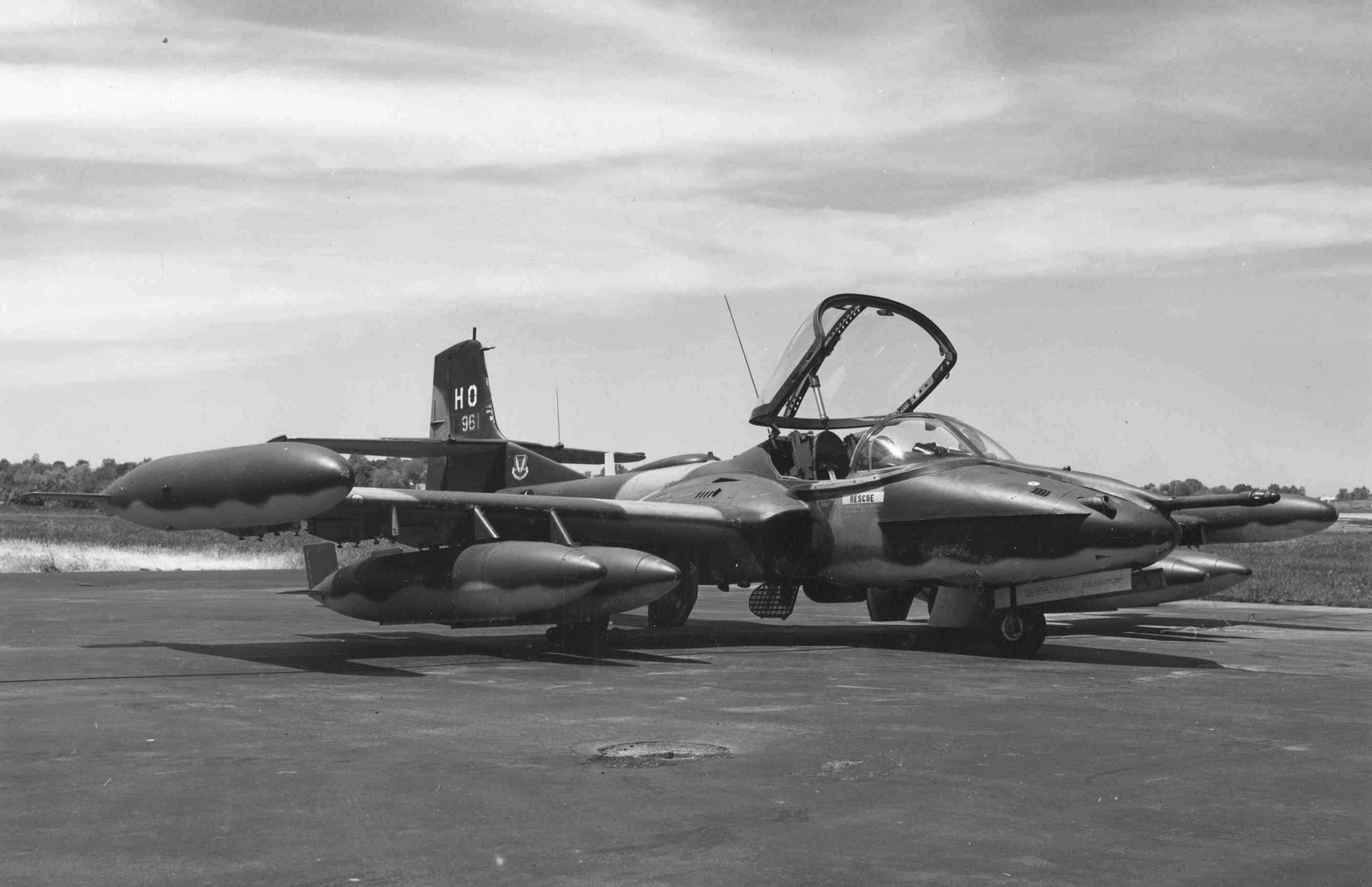 A U.S. Air Force Cessna A-37B Dragonfly (s/n 68-7961) of the 71st Special Operations Squadron at Grissom Air Force Base, Indiana (USA), on 13 May 1971.